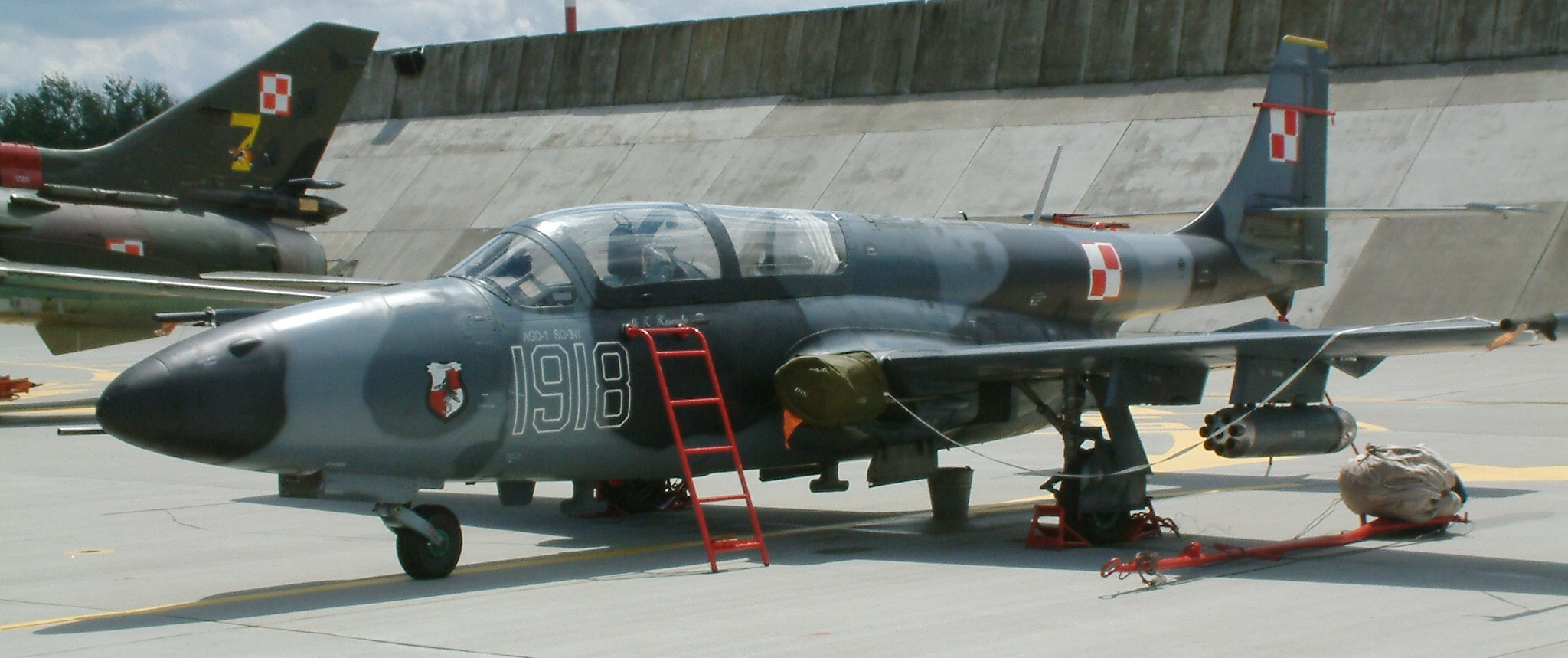 TS-11 Iskra R with markings of 3rd Tactical Sqn, in background tail of Su-22 with markings of 7th Tactical Sqn